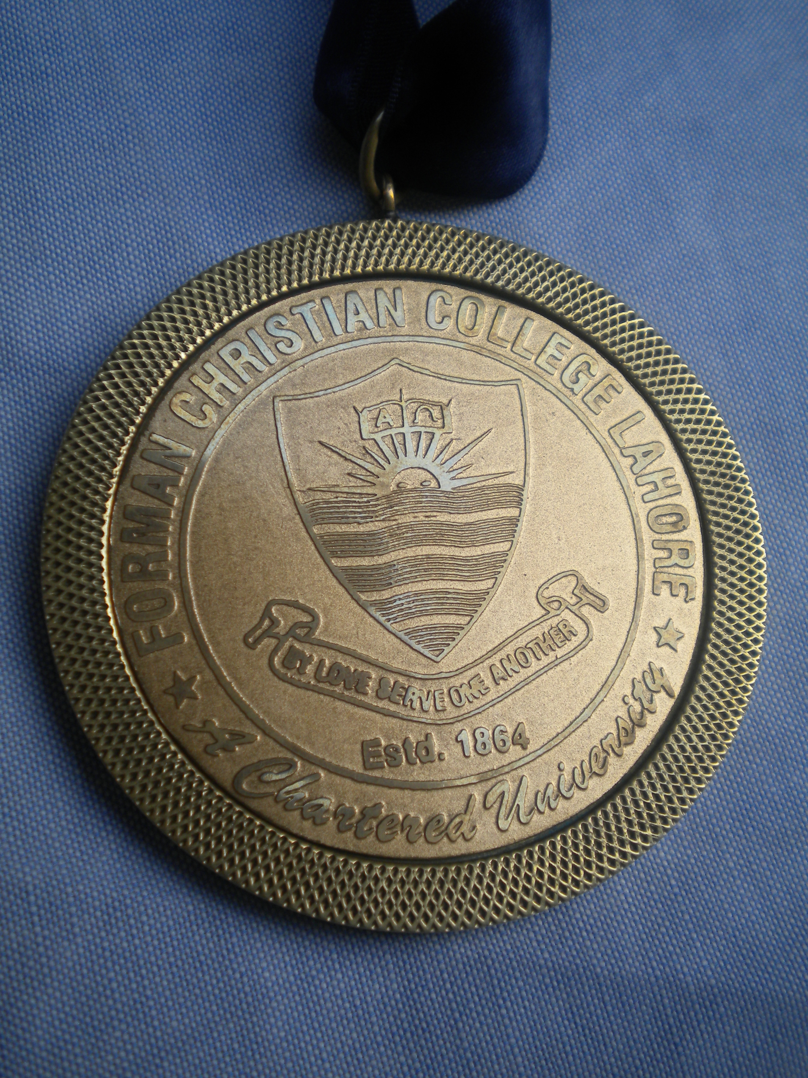 FC COLLEGE University Gold Medal